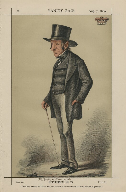 Caricature of Edward Seymour, 12th Duke of Somerset from "Vanity Fair", 1869. Caption read : "Proud and sincere, yet liberal and just, he refused to serve under the most humble of premiers."